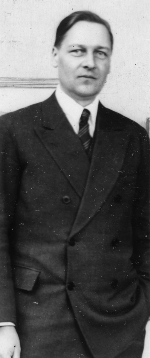 Norwegian painter and professor of arts, Alexander Schultz (1901–1981), photo from the 1930s